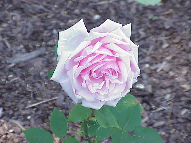 Species: Rosa sp. Family: Rosaceae Cultivar: La France, Guillot Fils 1867 Image No. 165